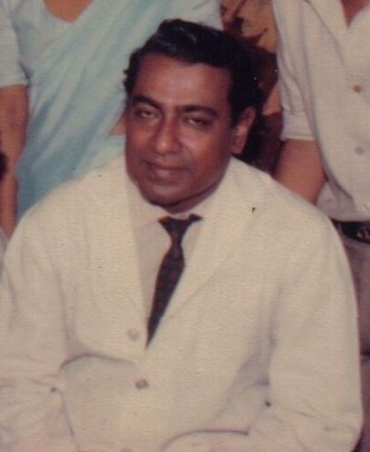 Dr Surendra Ramachandran Consultant Physician National Hospital Sri Lanka